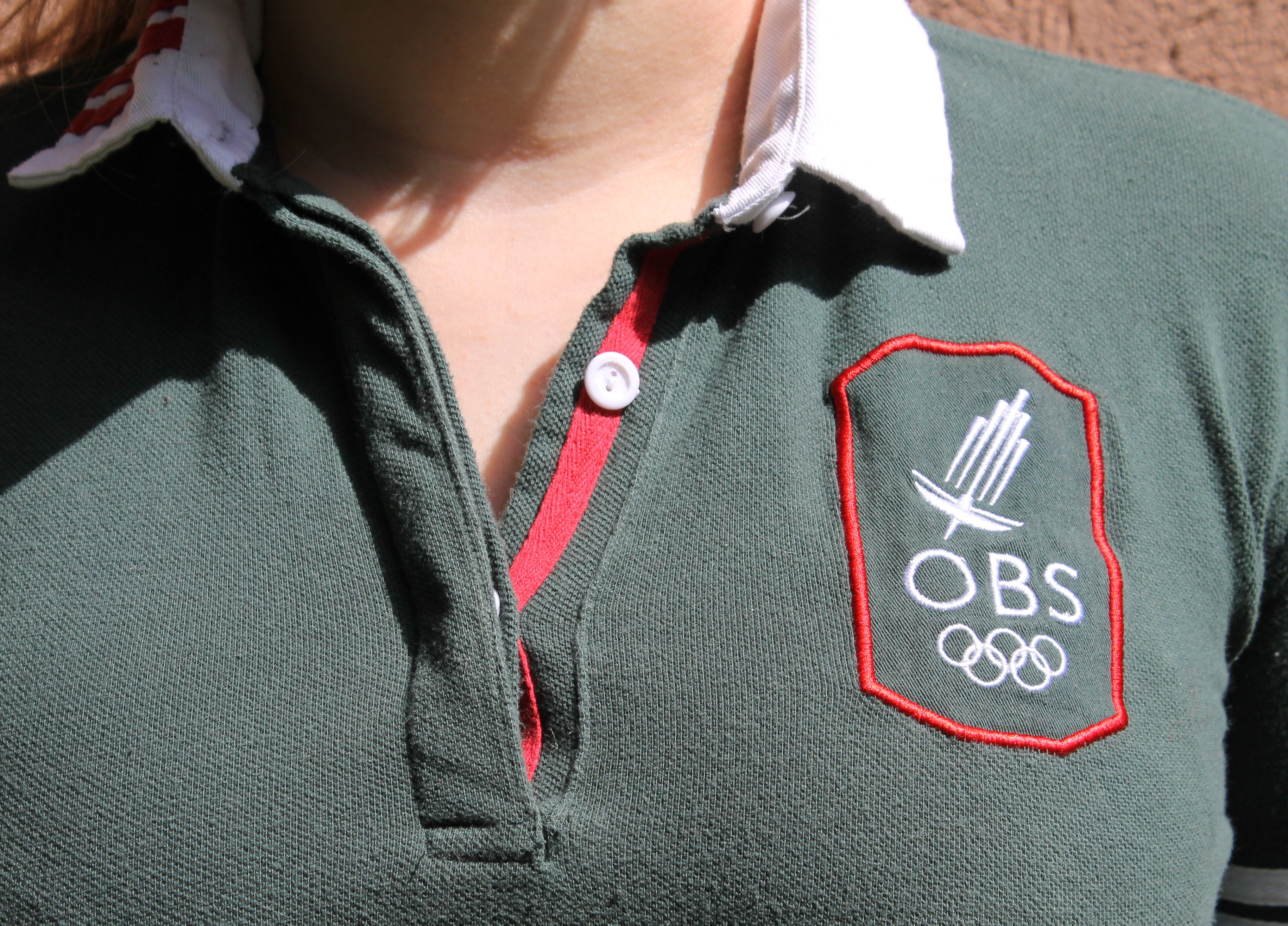 OBS-Outfit and Logo